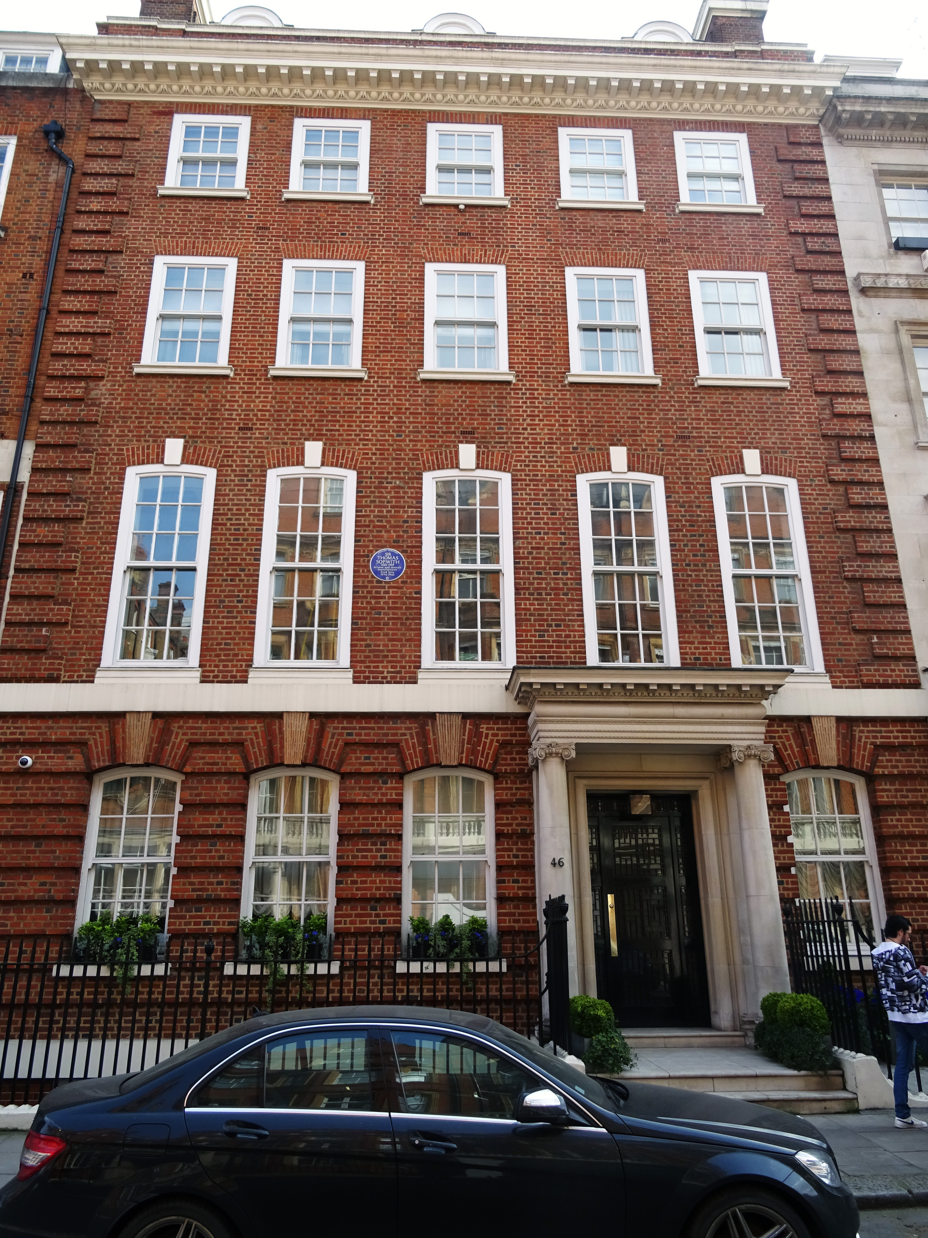 "Sir Thomas Sopwith 1888-1989 aviator and aircraft manufacturer lived here 1934-1940" - 46 Green Street, Mayfair, Westminster, London W1K 7FY